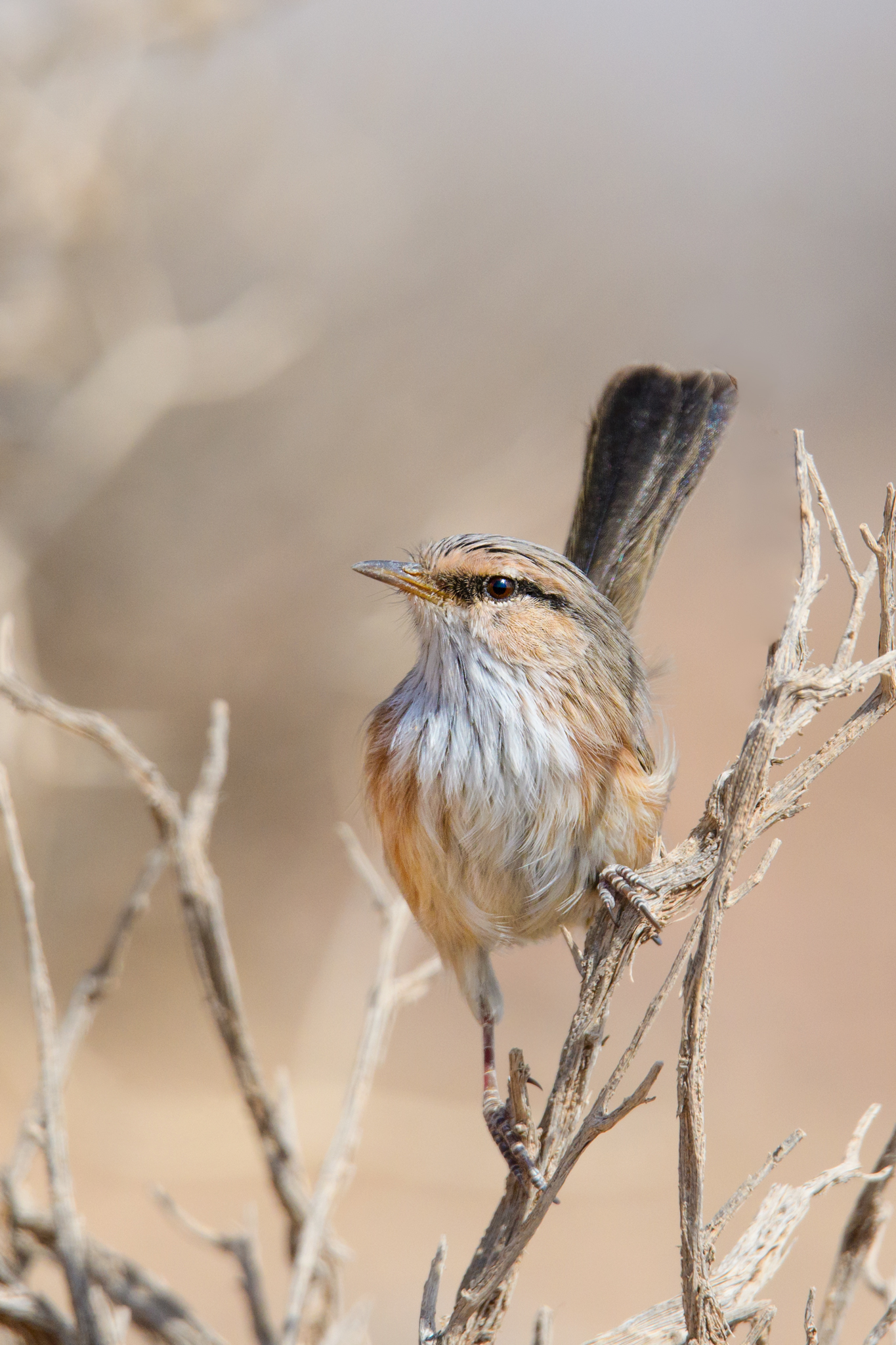 Streaked scrub warbler in Parvand wildlife refuge of Sabzevar, Iran